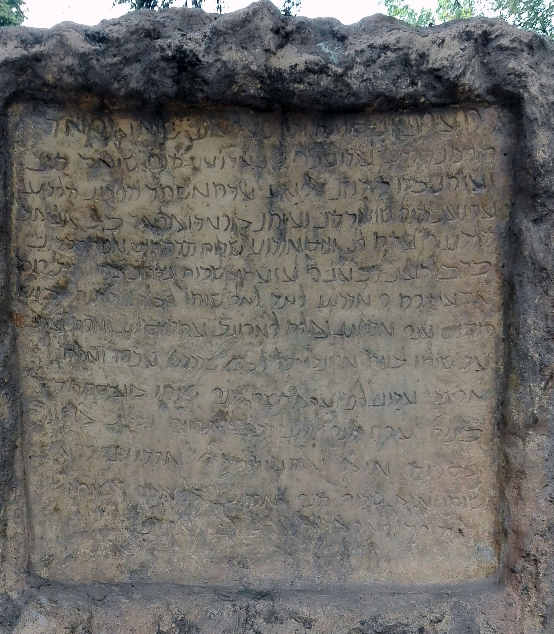 taken in inscription garden, Tehran